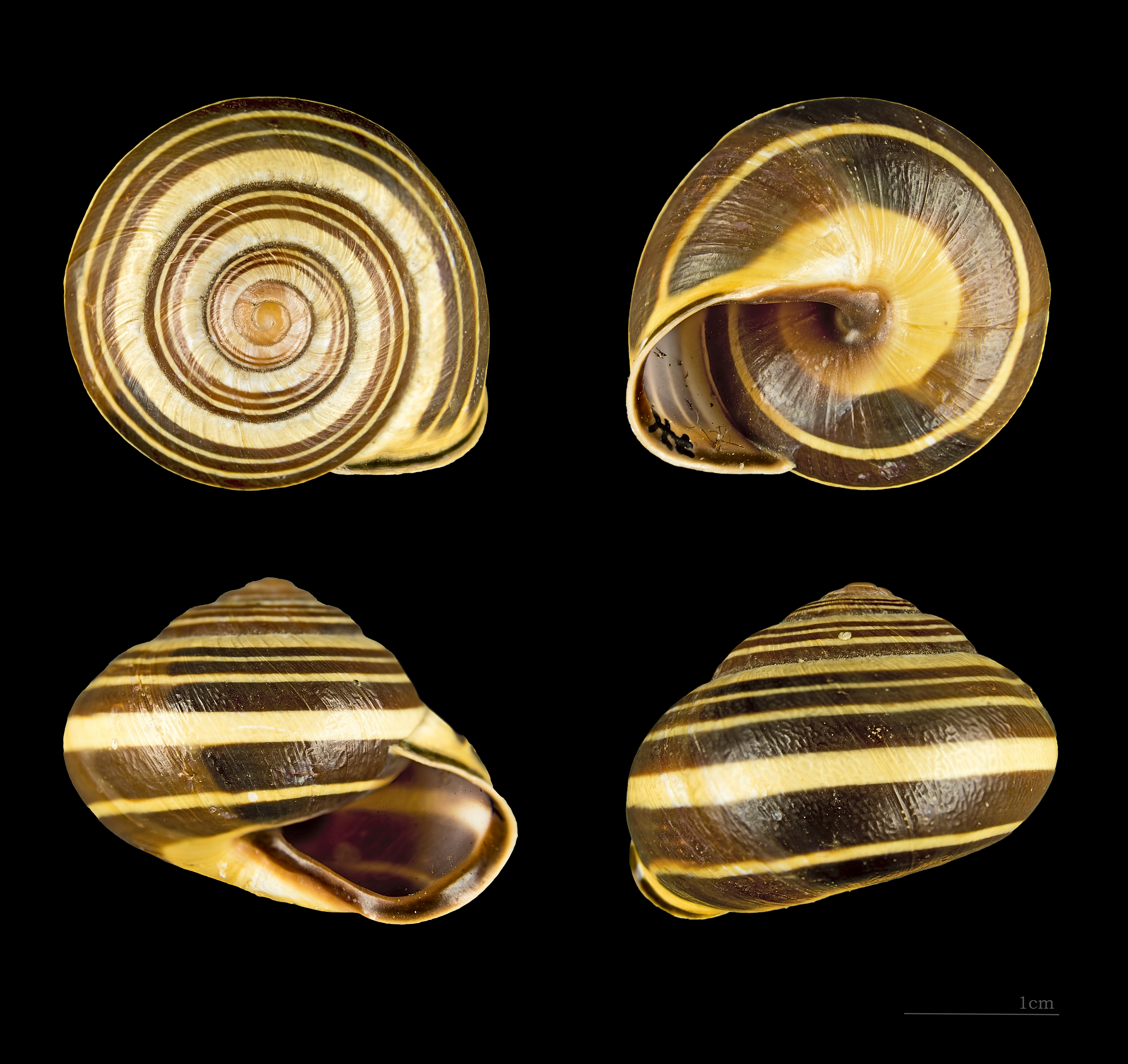 Shells of grove snail.